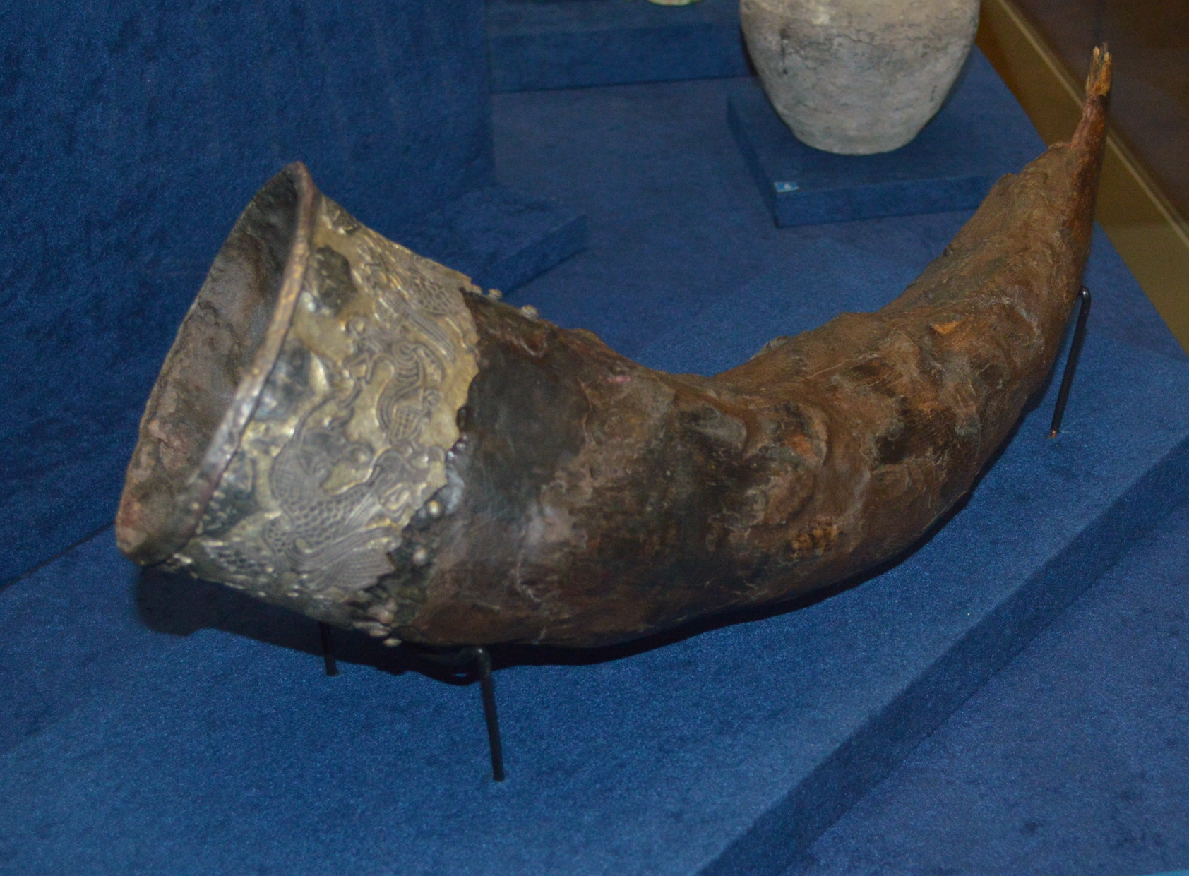 Rhyton (drinking horn). Horn, silver. Black Grave burial mound. Second half of 10 c.